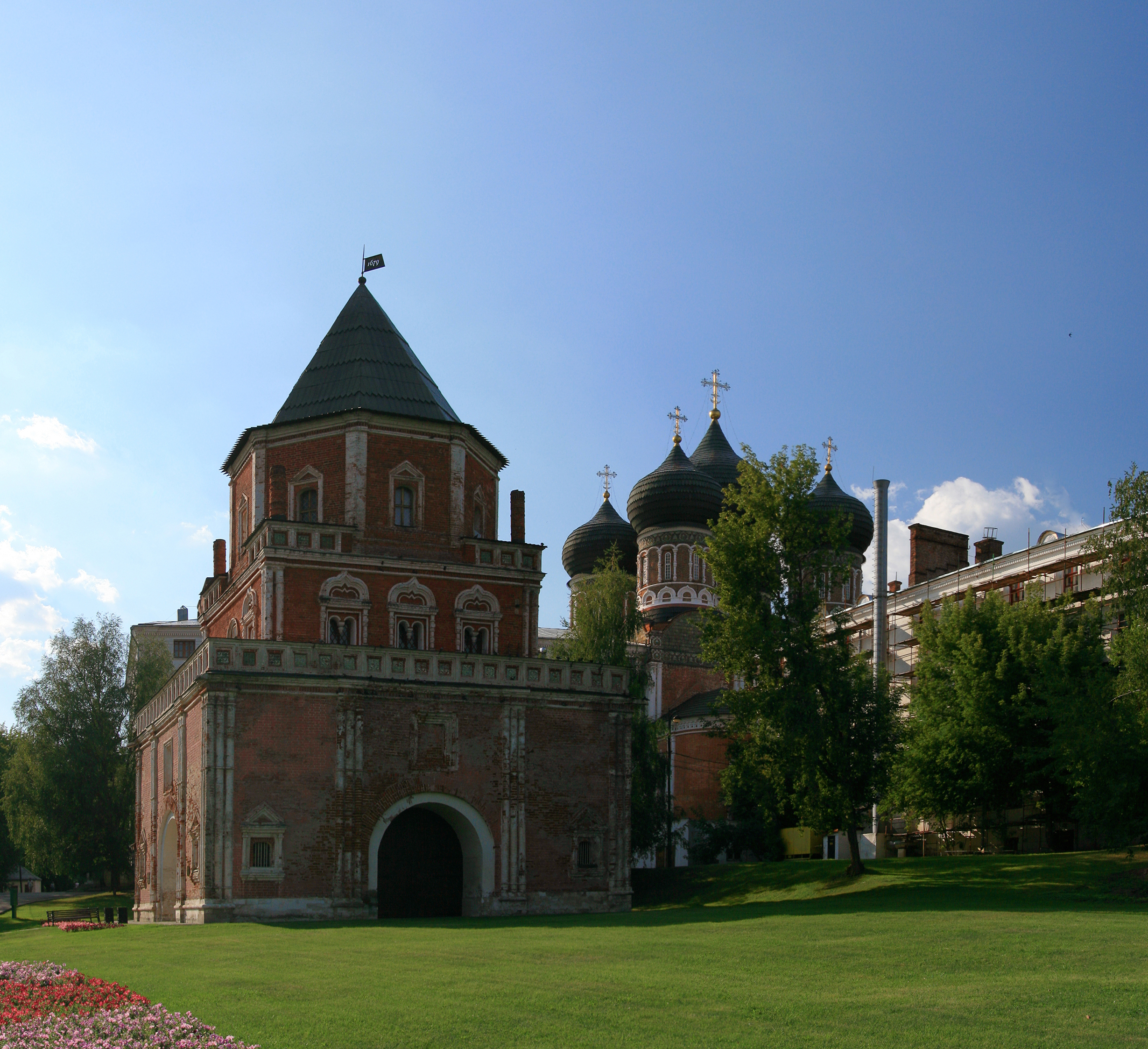 Barbican tower in Izmaylovo Estate, 1671-1679, Moscow